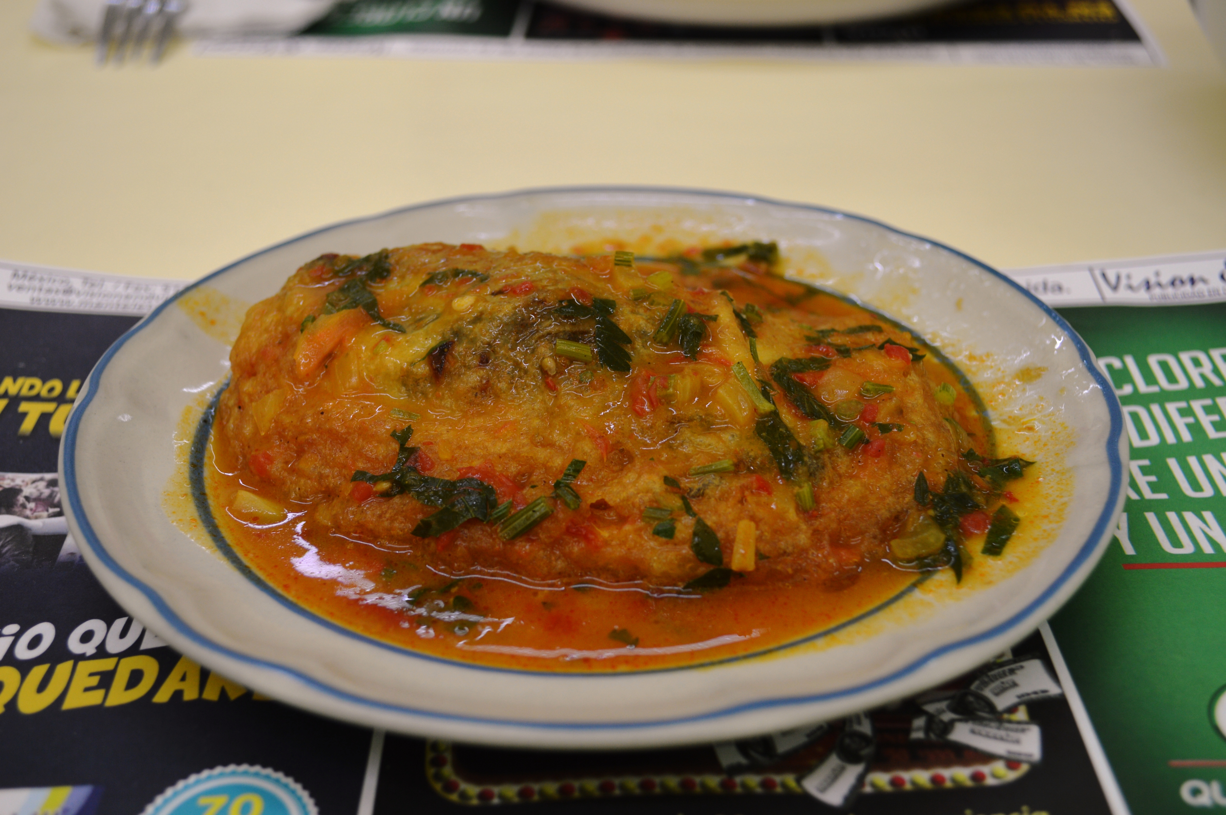 Chile relleno, ancho chili pepper filled with meat, battered and fried, covered in sauce served at a traditional fonda restaurant called Gran Cocina Mi Fonda in the historic center of Mexico City